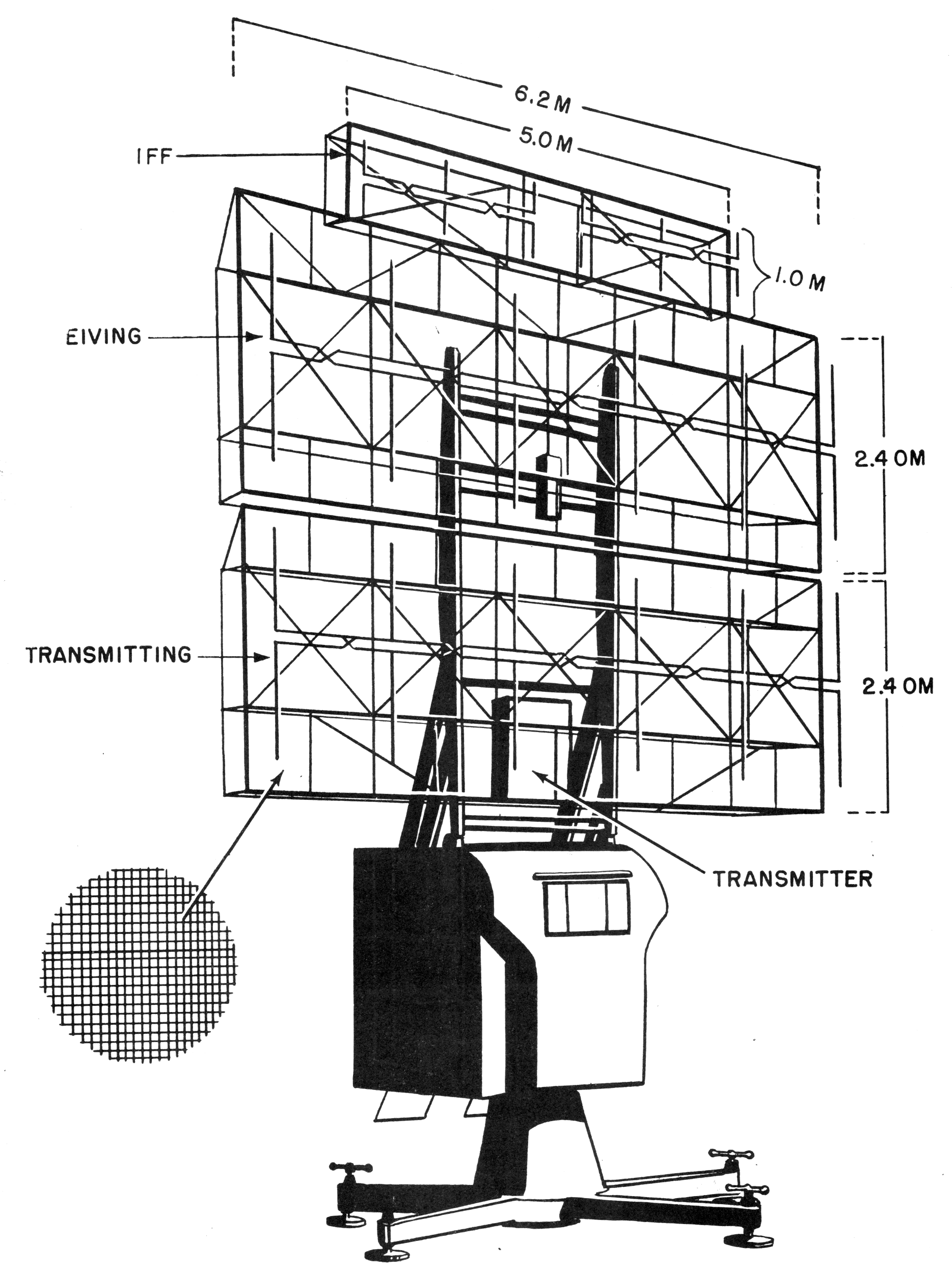 An illustration of a German World War II Limber Freya Radar from TM E 11-219 "Directory of German Radar Equipment".